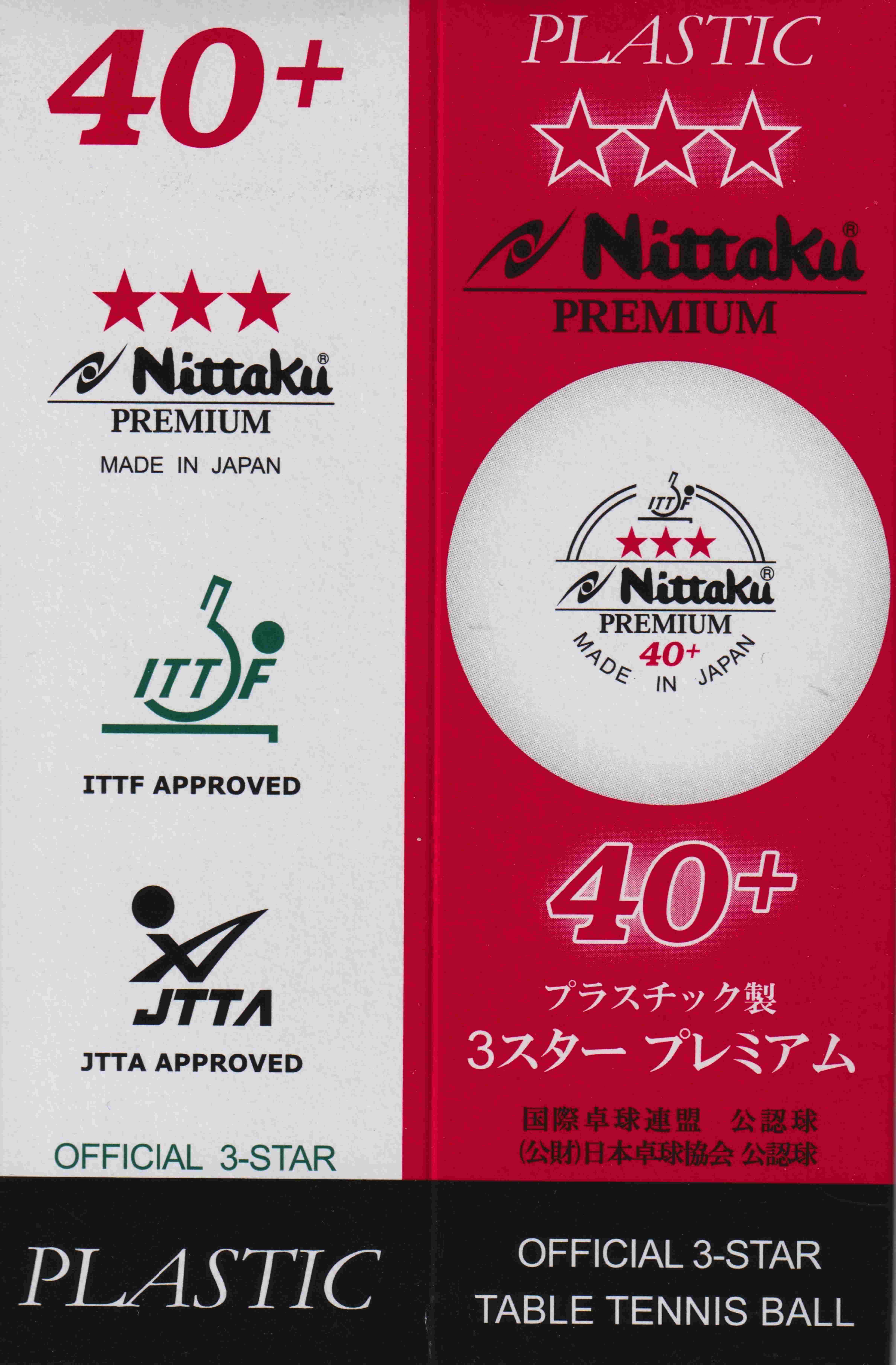 Table Tennis Ball